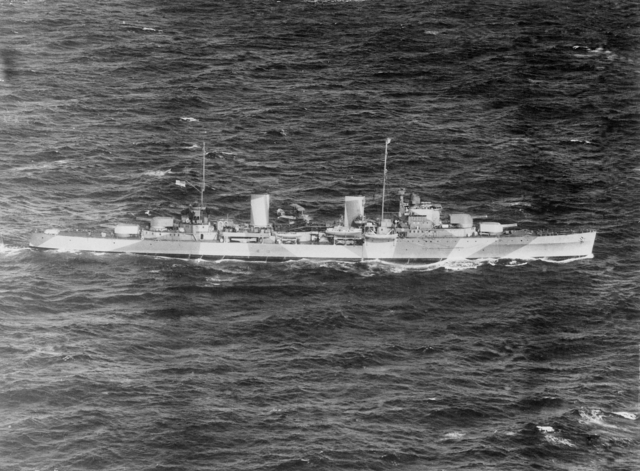 AWM caption: "1941-08-01. STARBOARD SIDE VIEW OF THE CRUISER HMAS SYDNEY (II) (EX HMS PHAETON) WITH HER AIRCRAFT EMBARKED. NOTE THE SPAR PROJECTING FORWARD OF THE BRIDGE AND THE SINGLE 4 INCH AA GUNS AMIDSHIPS, WHICH DISTINGUISHED THE SYDNEY FROM HER TWO SISTERS HOBART AND PERTH NOTE THE CAMOUFLAGE SCHEME, THE COLOURS OF WHICH ARE PROBABLY 507A (THE DARKER GREY) AND 507C. IT IS ALMOST IDENTICAL ON THE PORT SIDE."